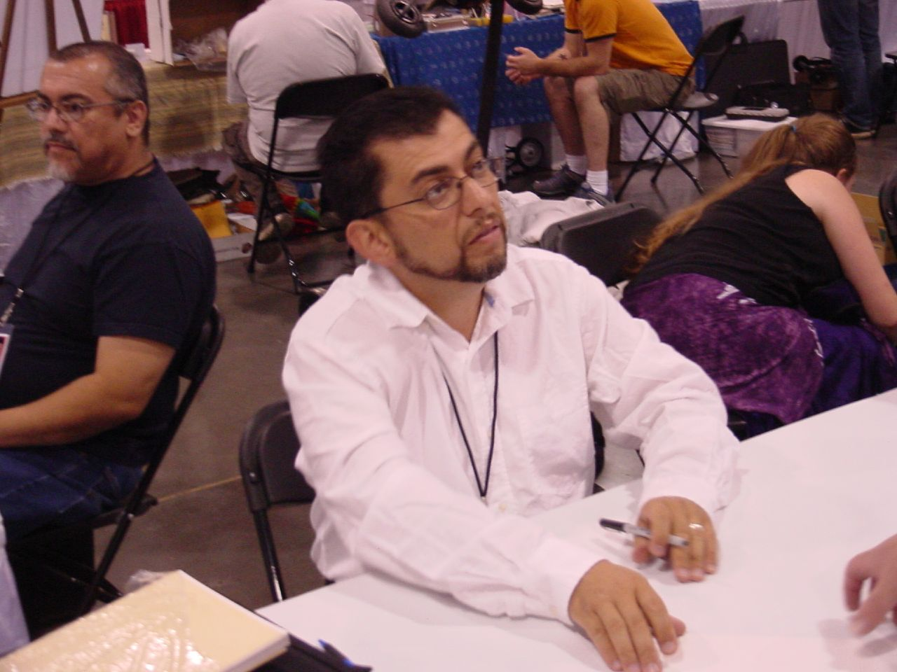 Jaime Hernandez (Gilbert Hernandez visible on the left). Taken June 30, 2006 at Heroes Con in Charlotte, NC by leigh (φθόγγος)